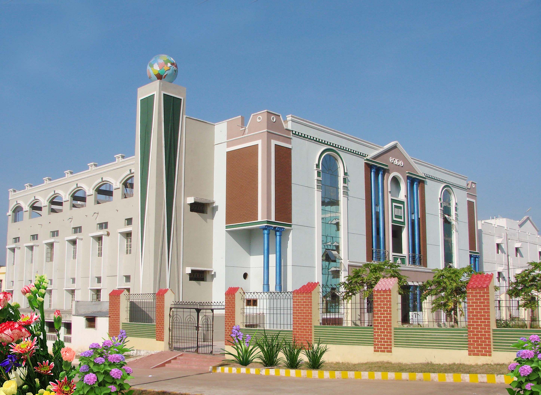 Student Central Mess, GIET